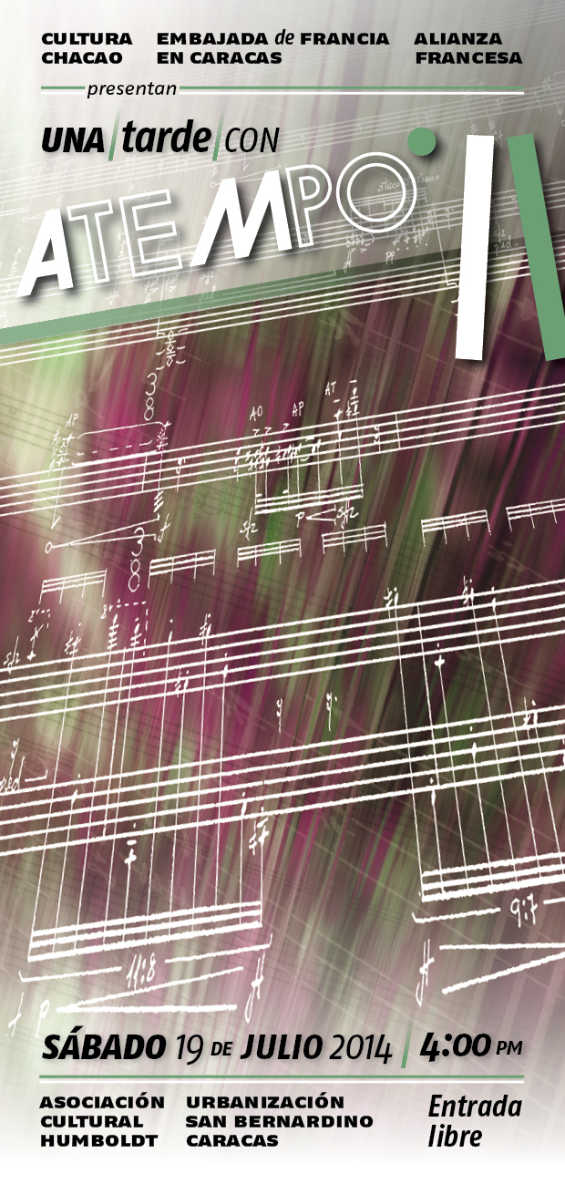 Volante promocional para la edición de 2014 Una tarde con Atempo